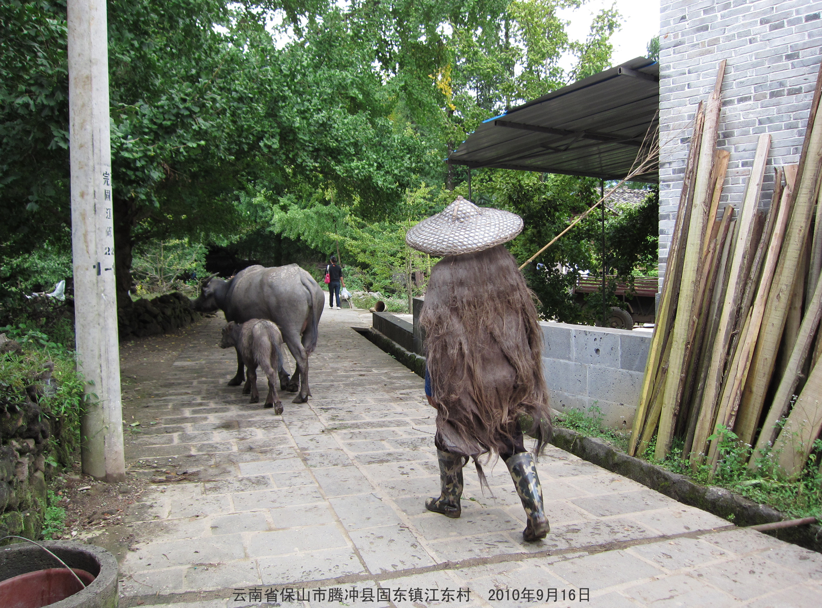 水牛和蓑衣 buffalos and the rain cloak